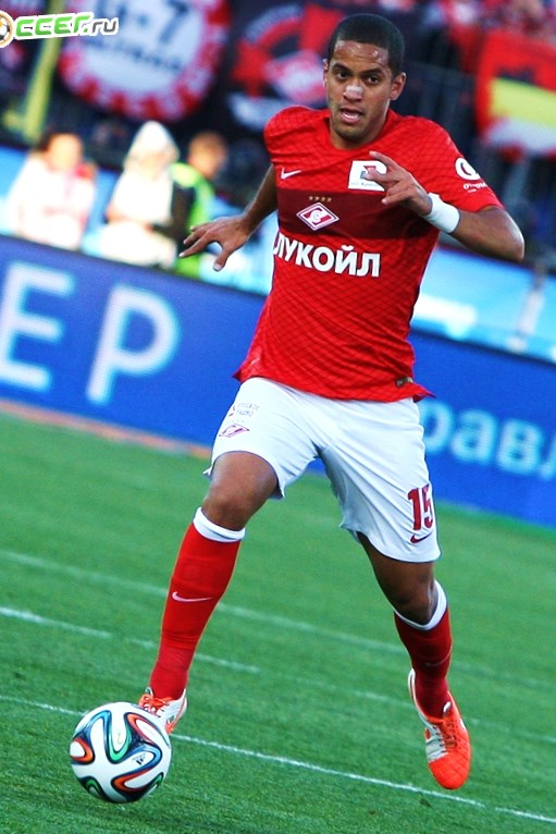 Rômulo Borges Monteiro